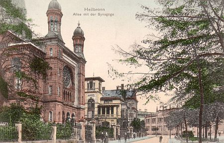 A colored postcard showing the synagogue in Heilbronn